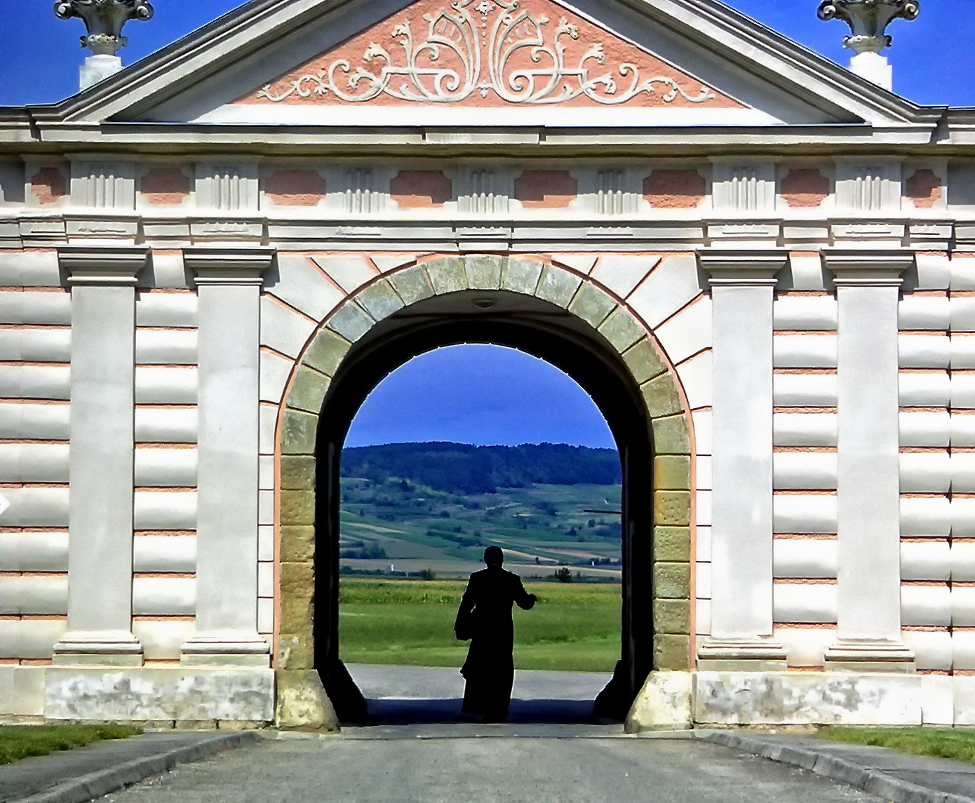 A Canon Regular leaves the Priory of Herzogenburg (Upper Austria, Austria).